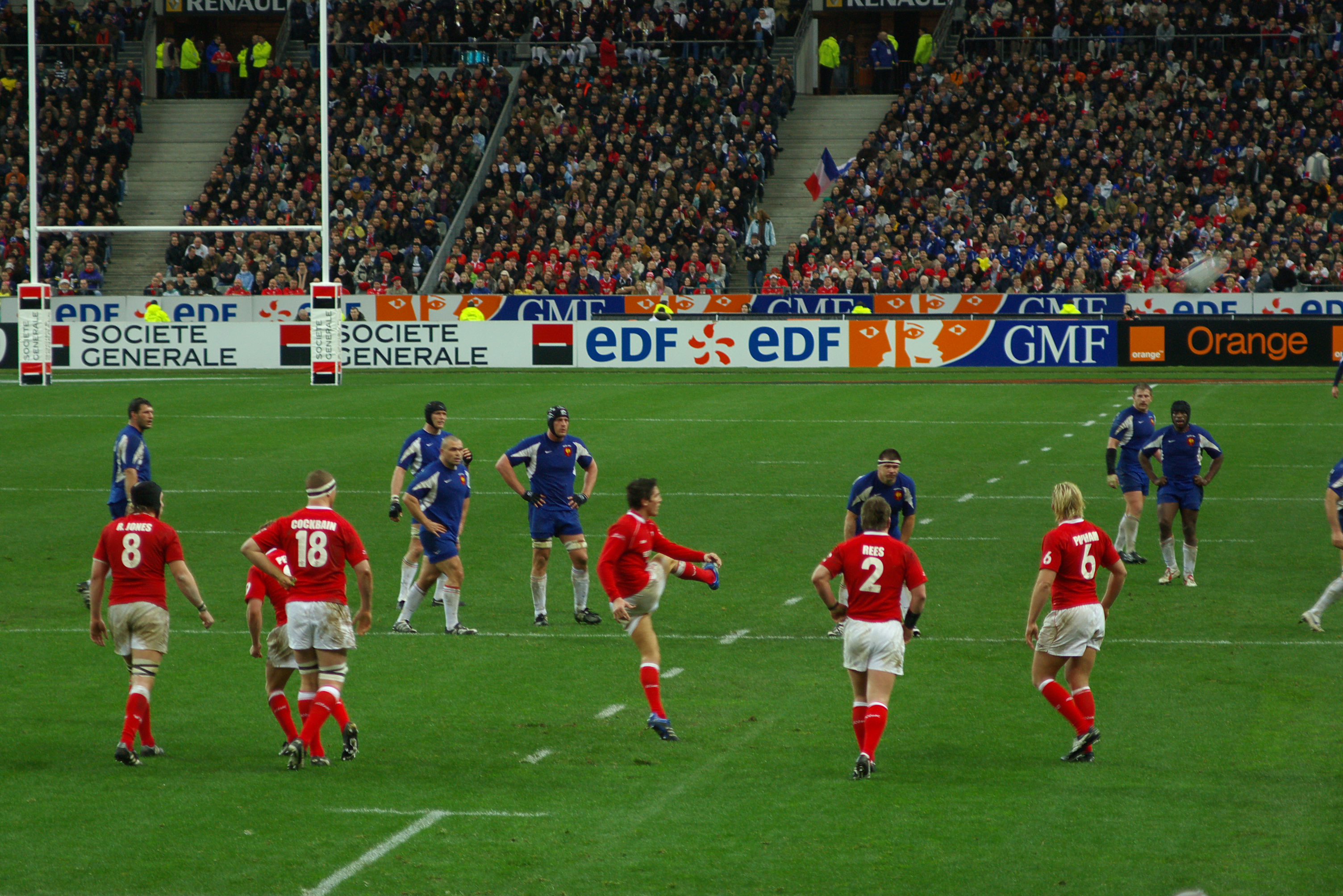 Pictures from the rugby game France vs Wales for 6 Nations 2007 which took place in Stade de France, Paris, 24/02/2007.